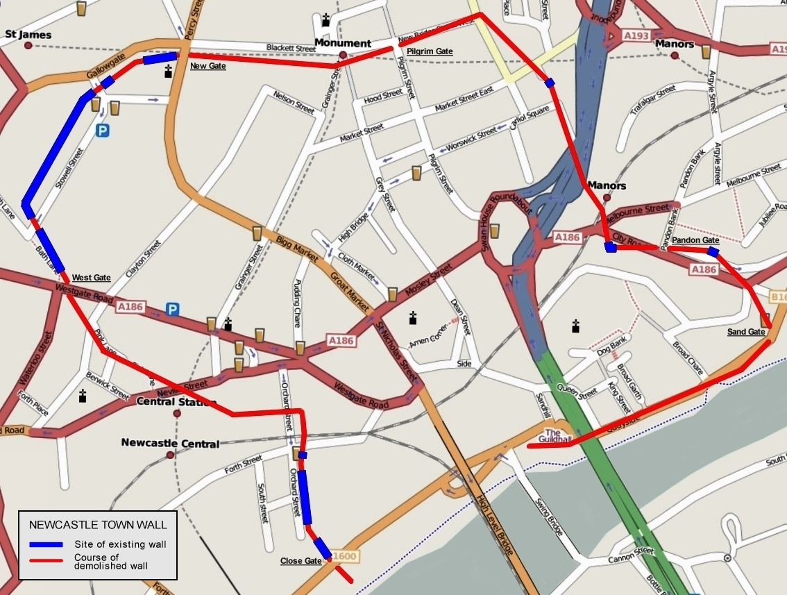 OpenStreetMap map of Newcastle upon Tyne, modified by uploader to show course of town wall